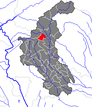 This map shows the area of the Gemeinde (municipality) Haslau bei Birkfeld in the Bezirk (district) Weiz, Styria, Austria.